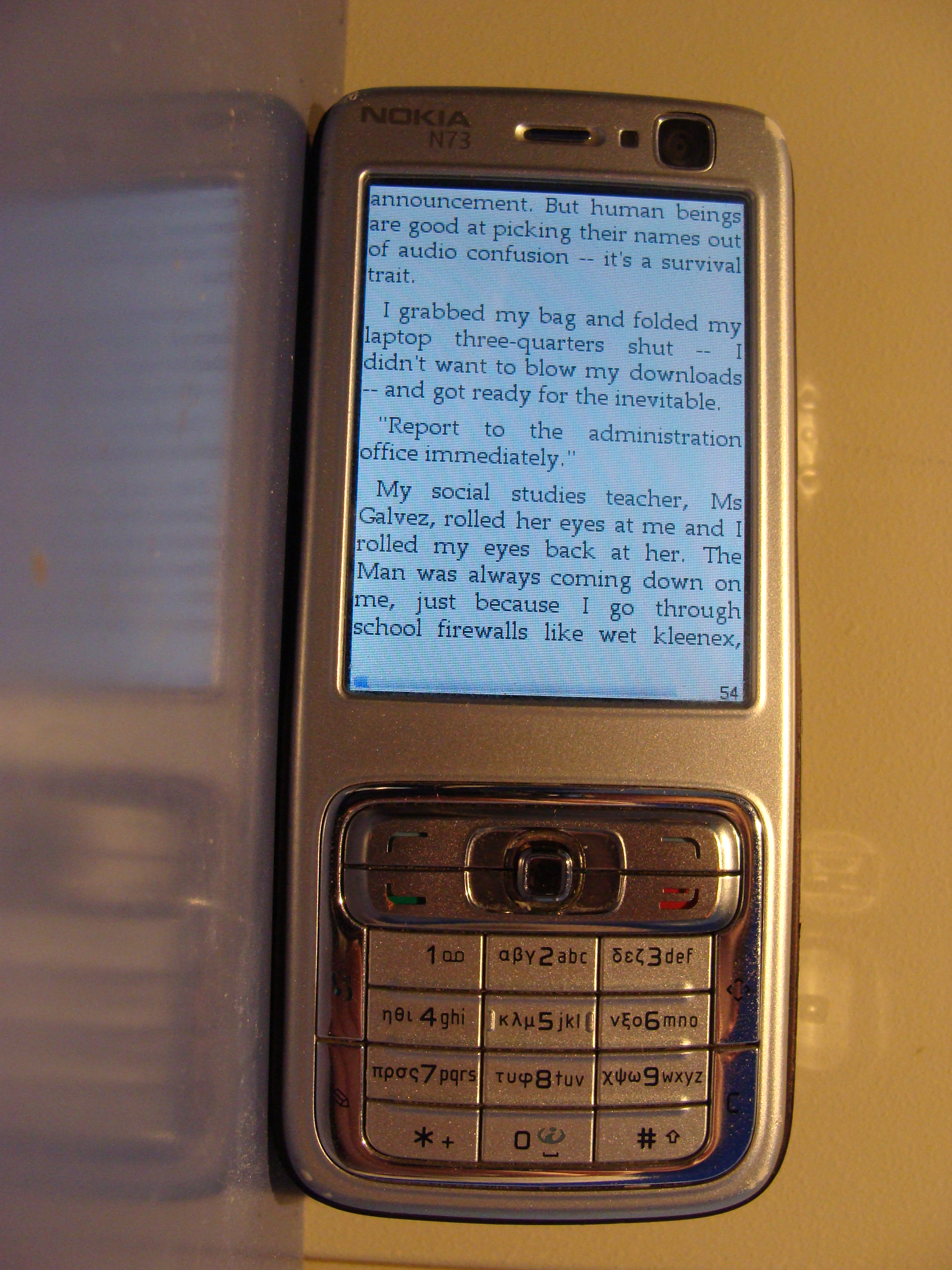 Nokia N73 smartphone displaying part of the e-book Little Brother by Cory Doctorow, which is available under a Creative Commons license.